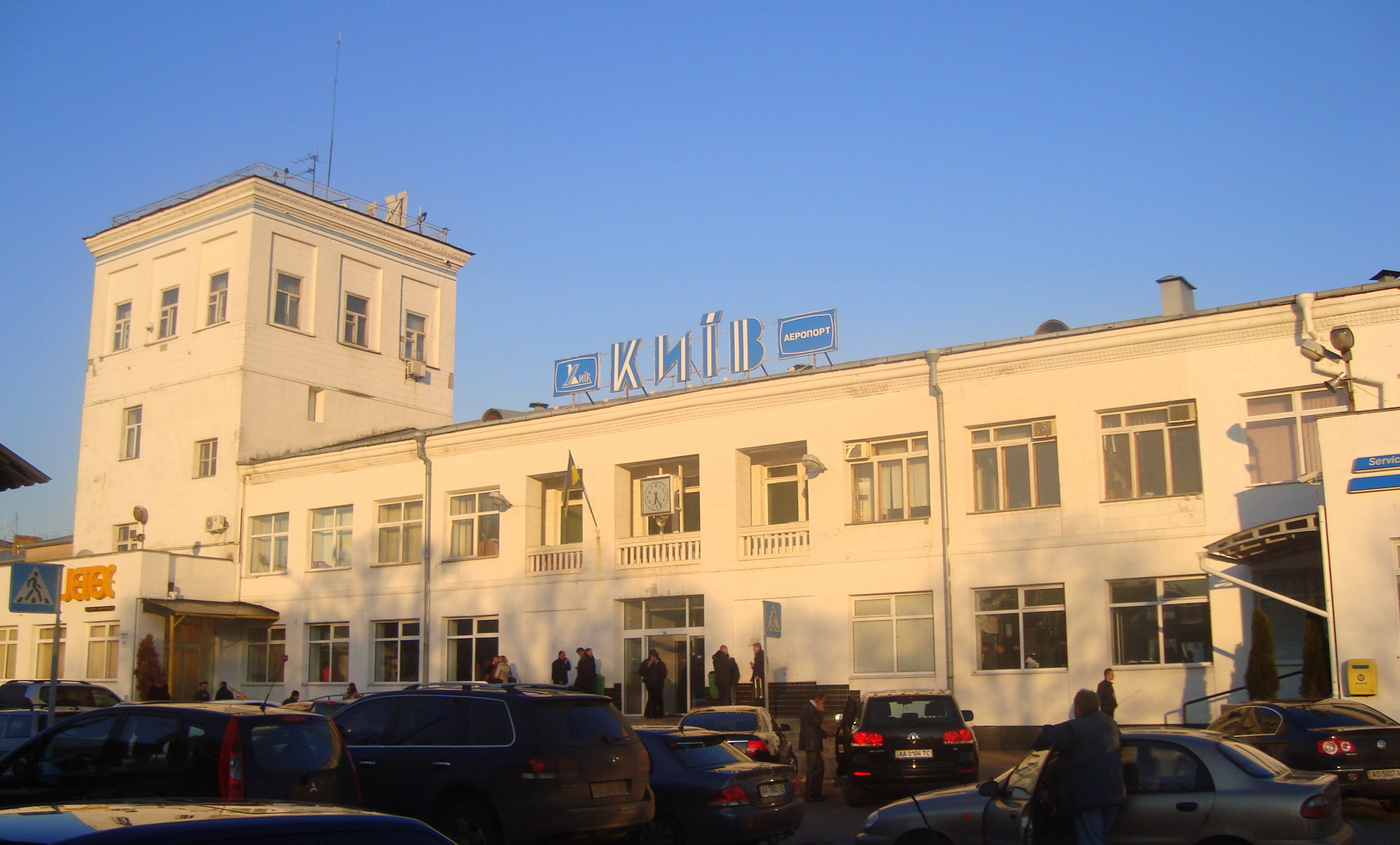 Terminal of Kiev International Airport (Zhulyany), Kiev, Ukraine